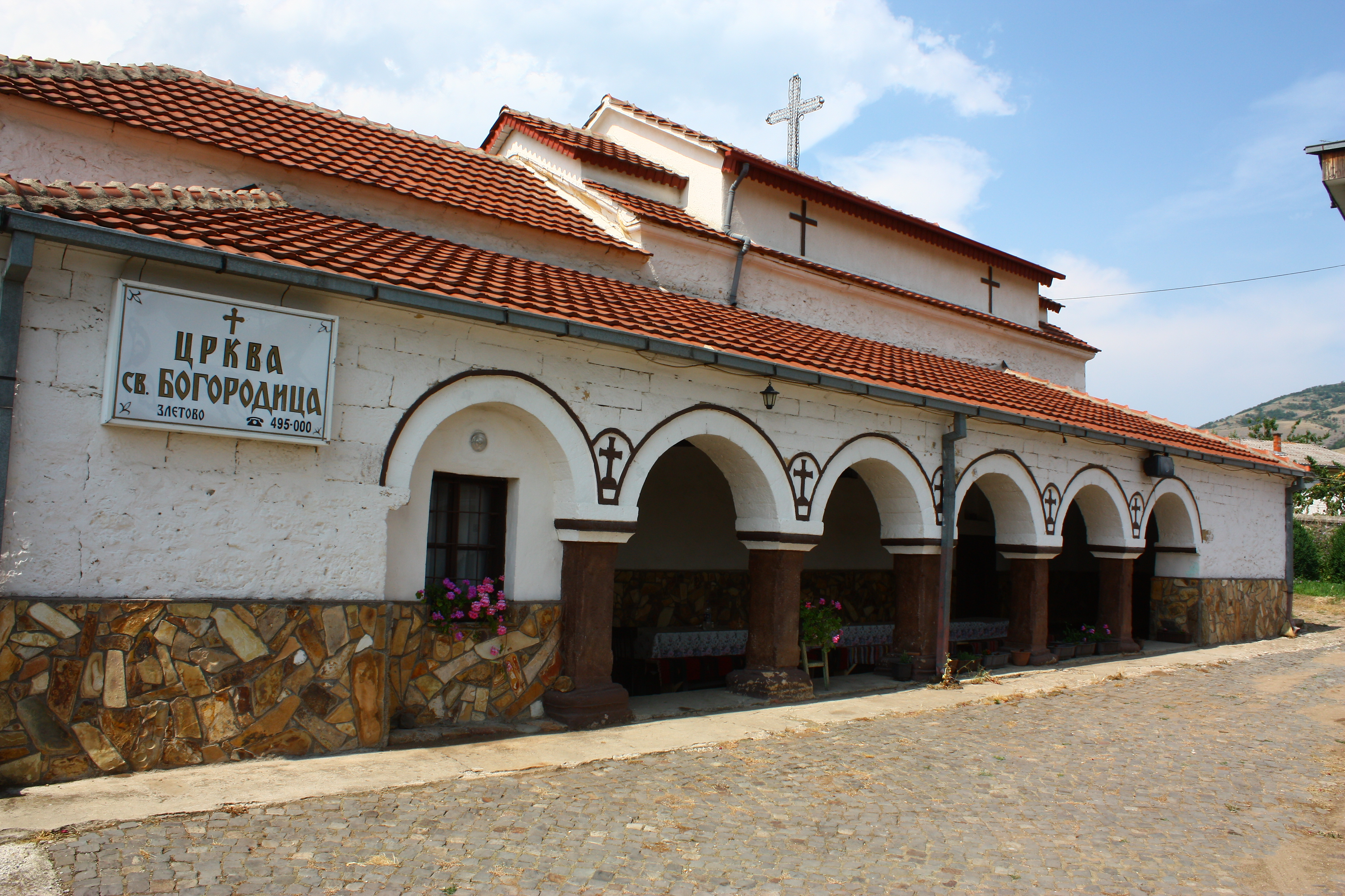 Church of the Theotokos in Zletovo, Macedonia